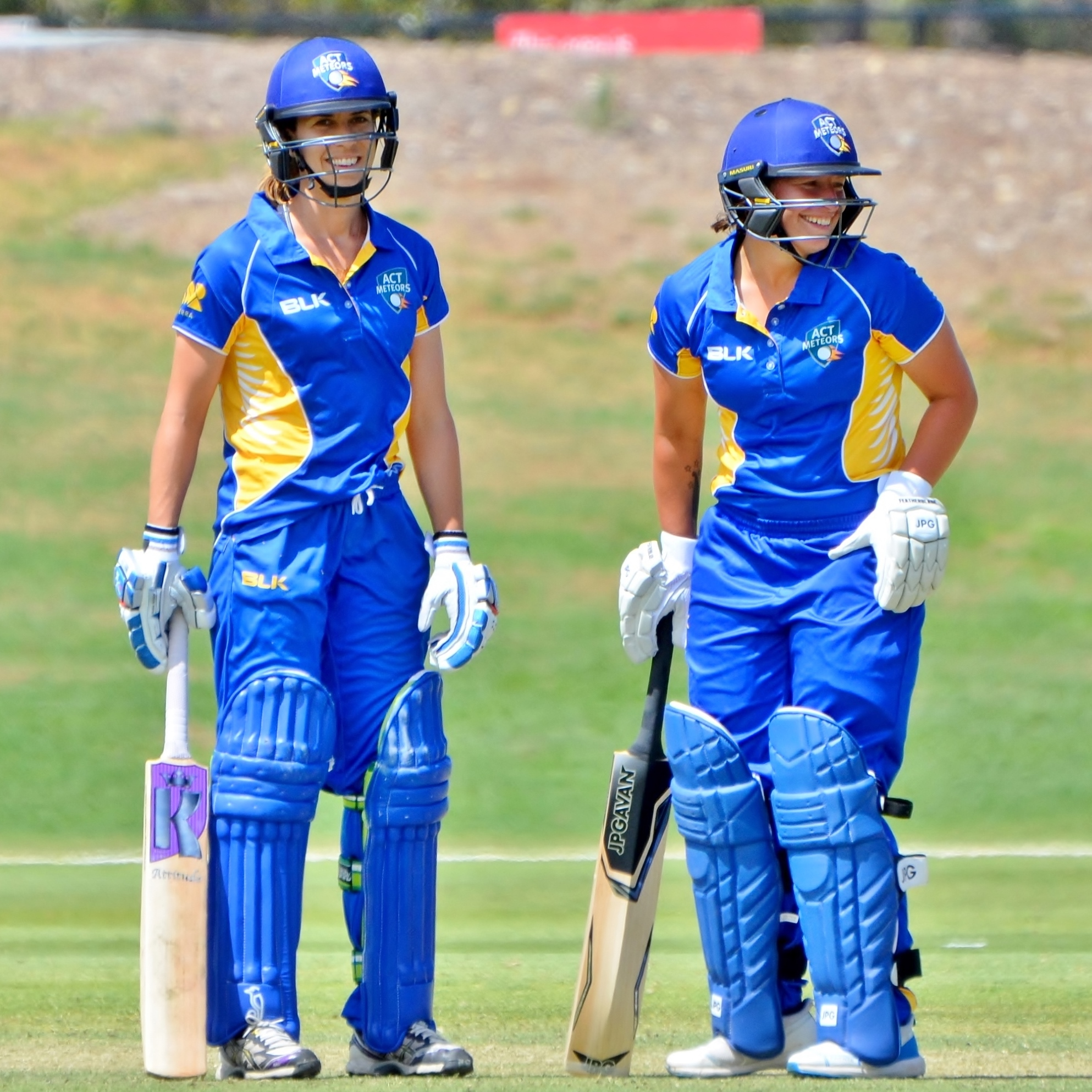 All-rounders Erin Burns (left) and Hayley Jensen (right) are having fun between overs while batting for the ACT Meteors against the New South Wales Breakers, in a WNCL top of the table clash at Murdoch University Sports Oval in Perth.